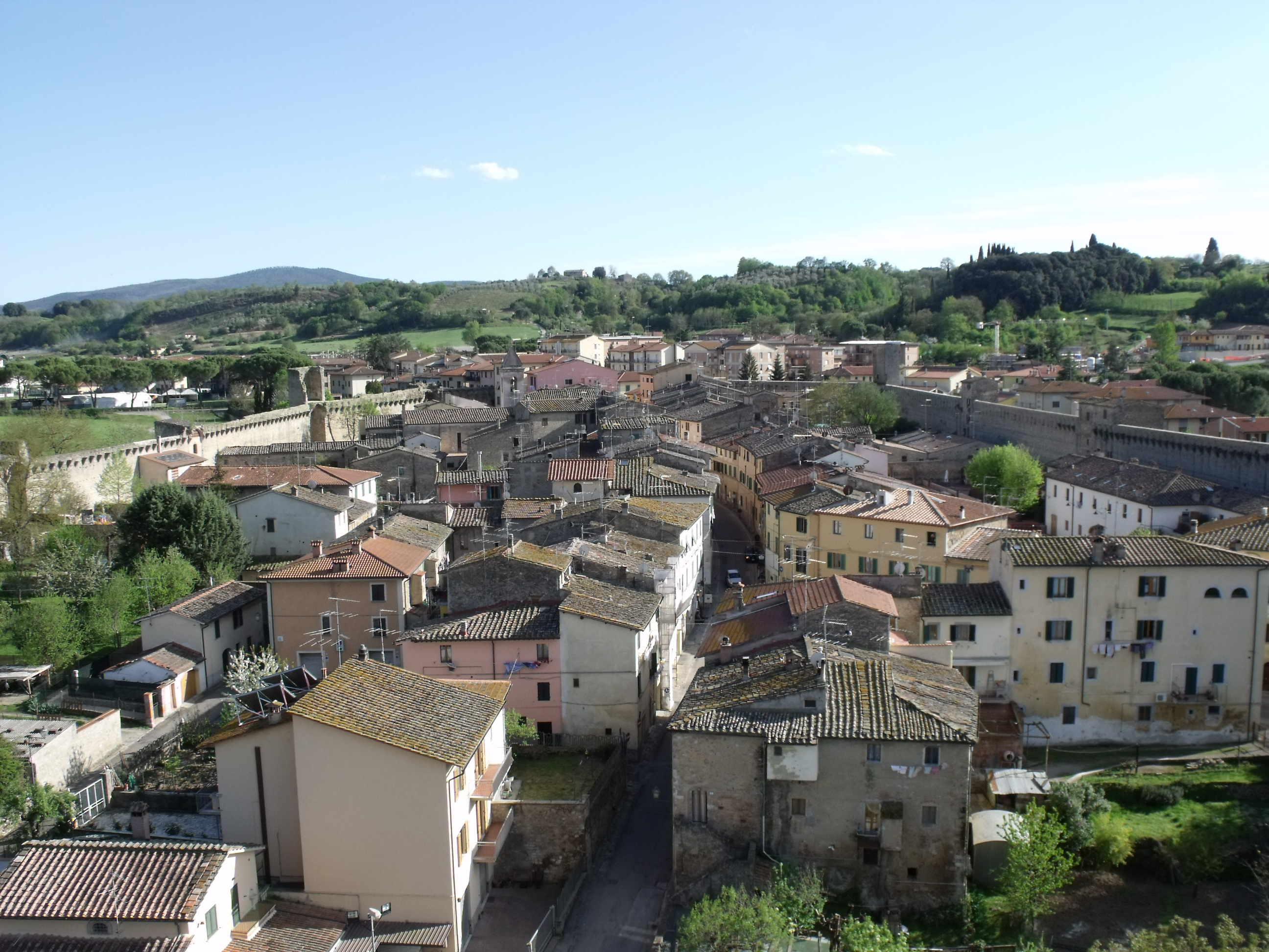 Panorama of Staggia Senese, seen from the Castle in Staggia Senese, Poggibonsi, Province of Siena, Tuscany, Italy